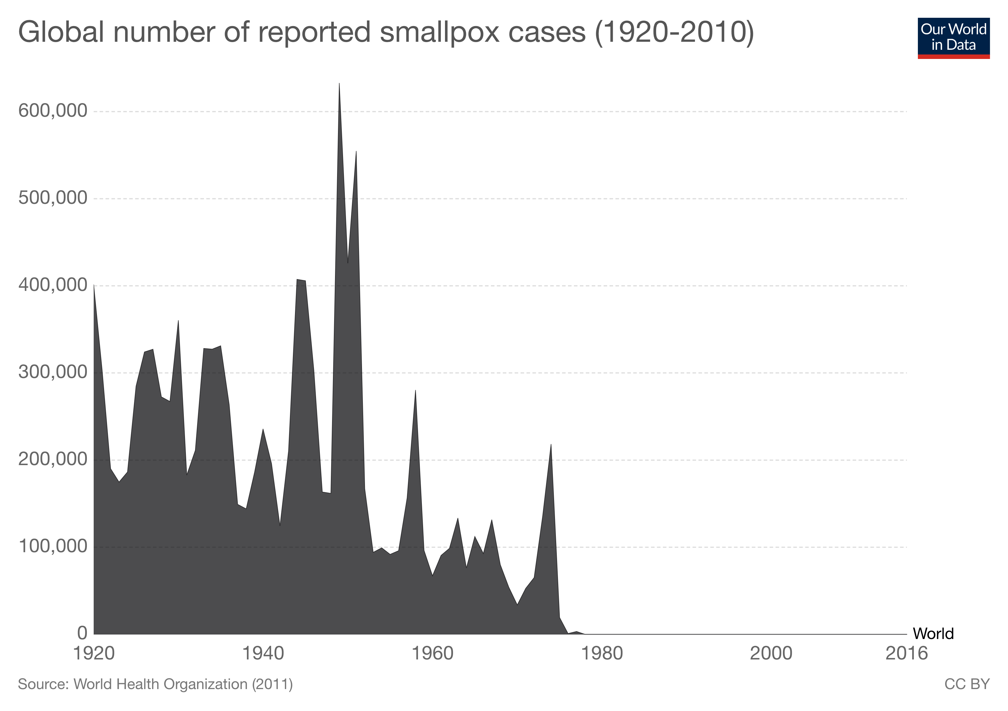 Number of smallpox cases reported globally.